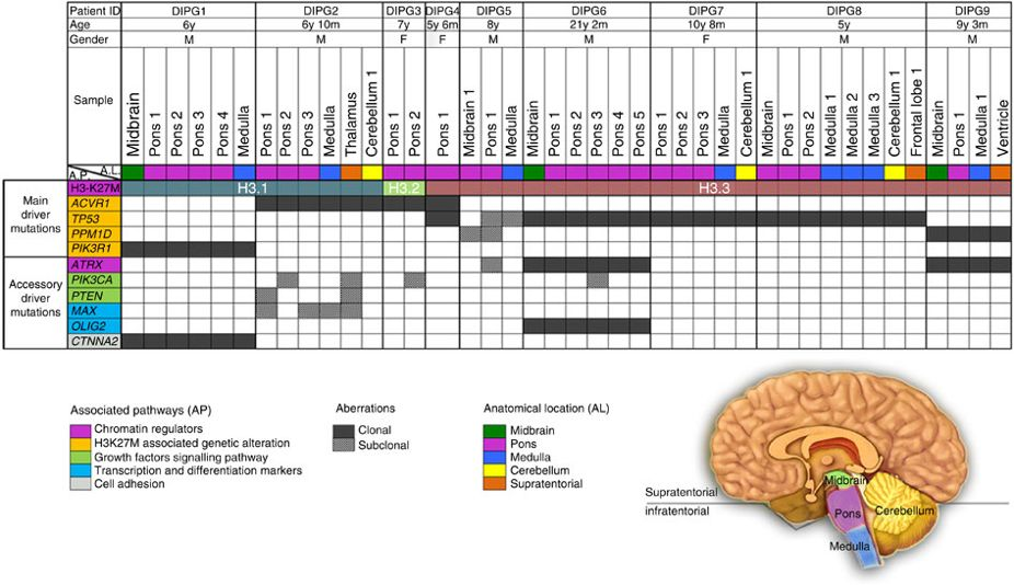 Mutations in diffuse intrinsic pontine glioma (DIPG) samples from several anatomical locations. Samples representing different anatomical locations within each patient are represented in columns. The mutations (in rows) were selected based on published datasets in paediatric glioblastoma and specifically DIPG. Mutations were divided into two subgroups; driver mutations which are essential for tumour initiation/maintenance and accessory driver mutations, which can further promote and accelerate tumour growth, but are not absolutely essential for tumour initiation or maintenance.